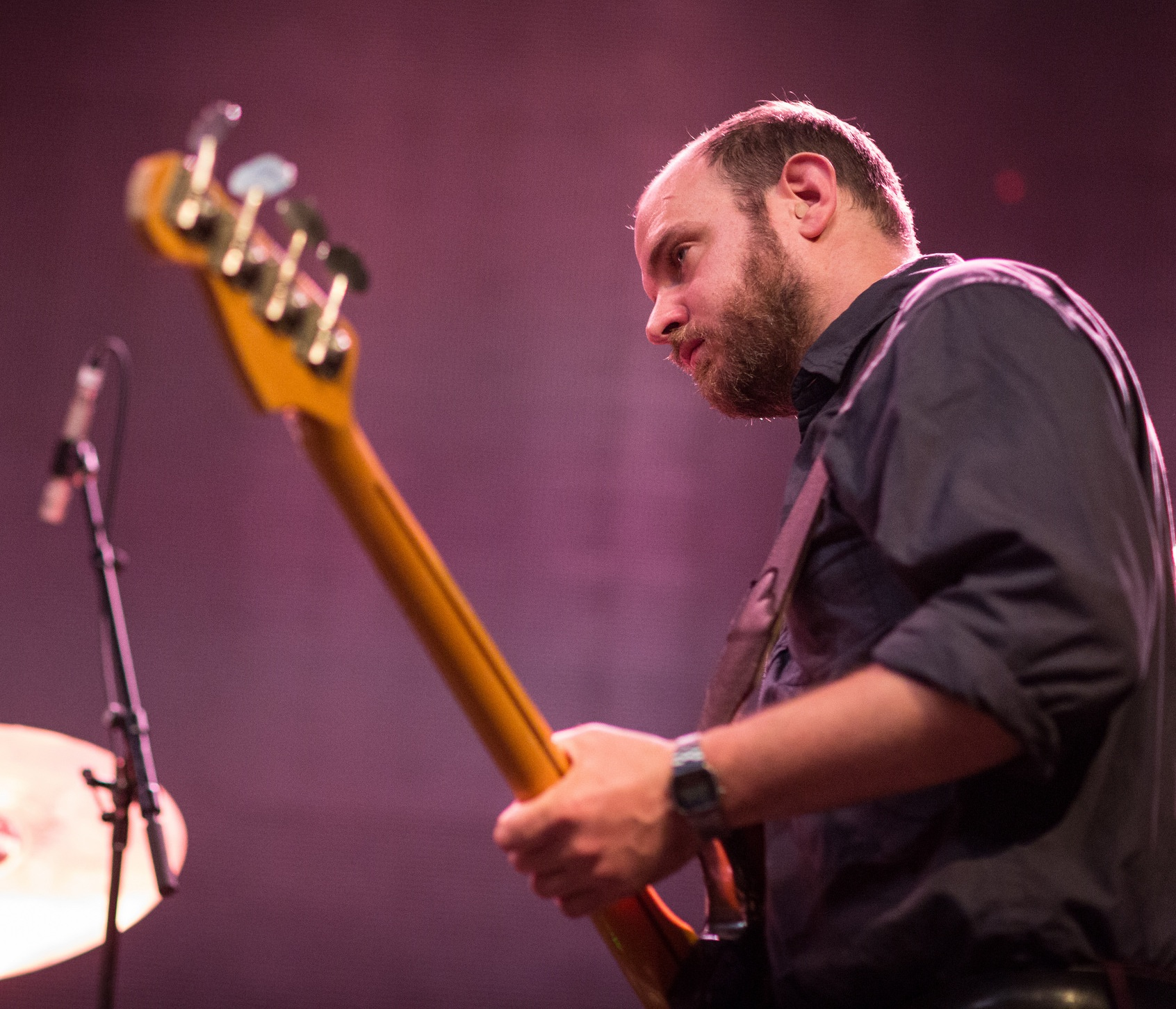 Bass guitarist Chris Pravdica performing with Swans at Royale in Boston, Massachusetts on May 17, 2014.